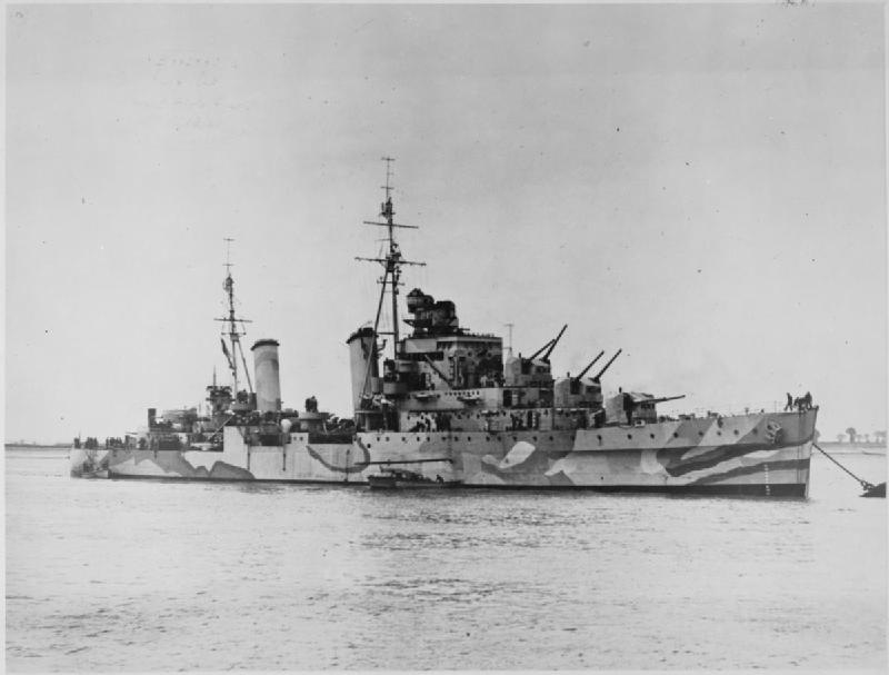 Photograph of British light cruiser HMS Euryalus at a buoy on completion.